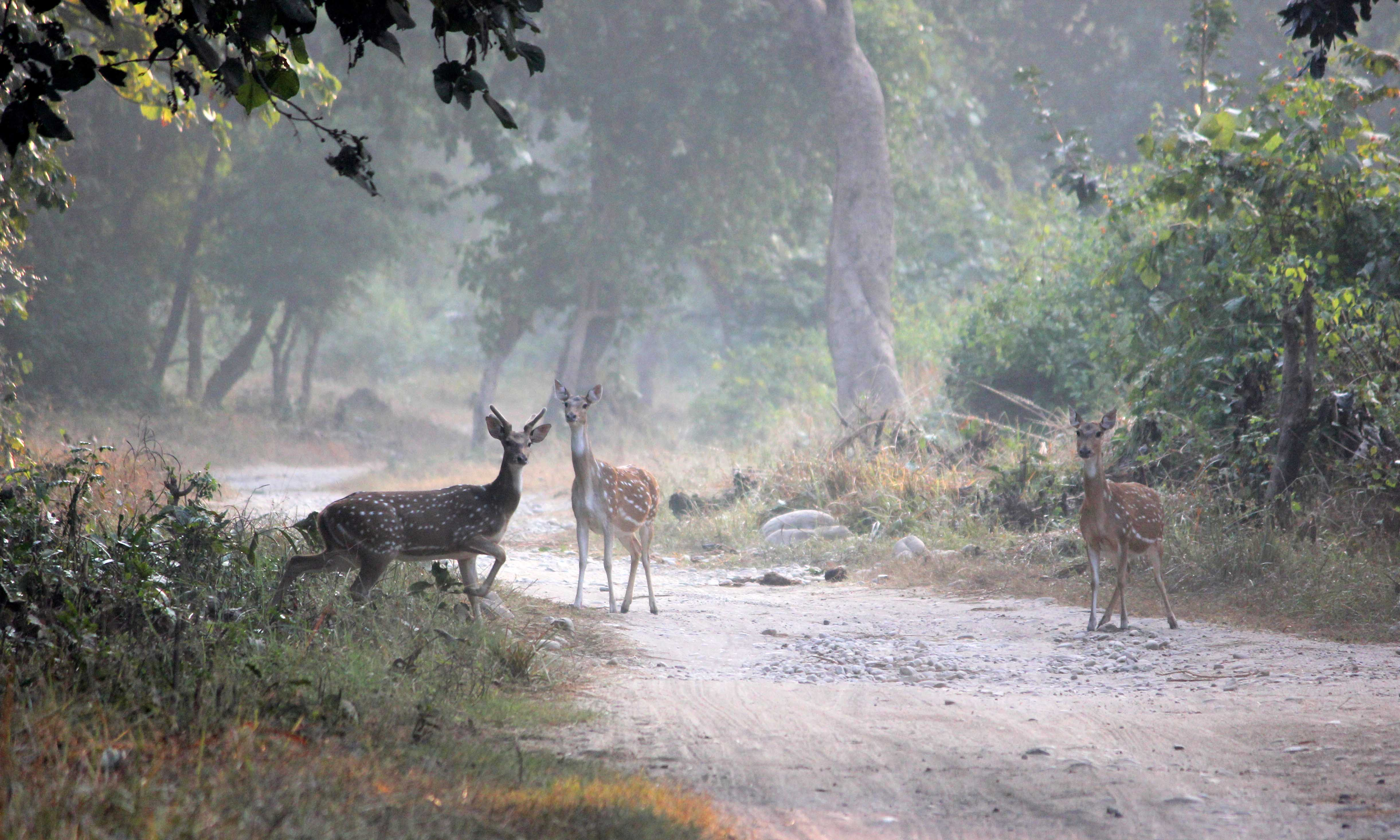 Spotted deers gave an alarm call indicating presence of a big cat and hurriedly made a way out towards other side of forest. Clicked in Jim Corbett National Park, Uttarakhand.